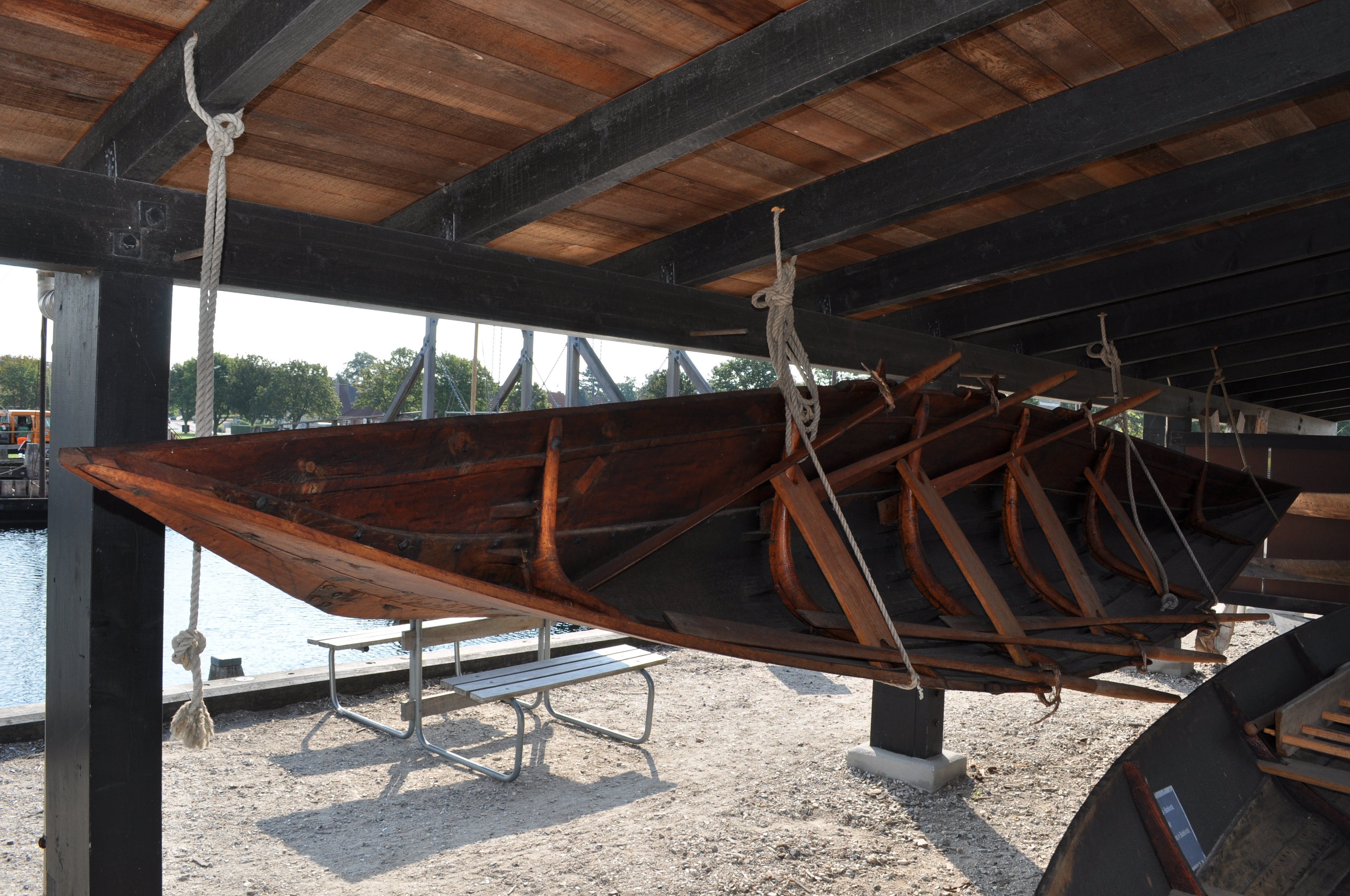 Boat from Hille--Hillebåten Replika from Vikingshipmuseum